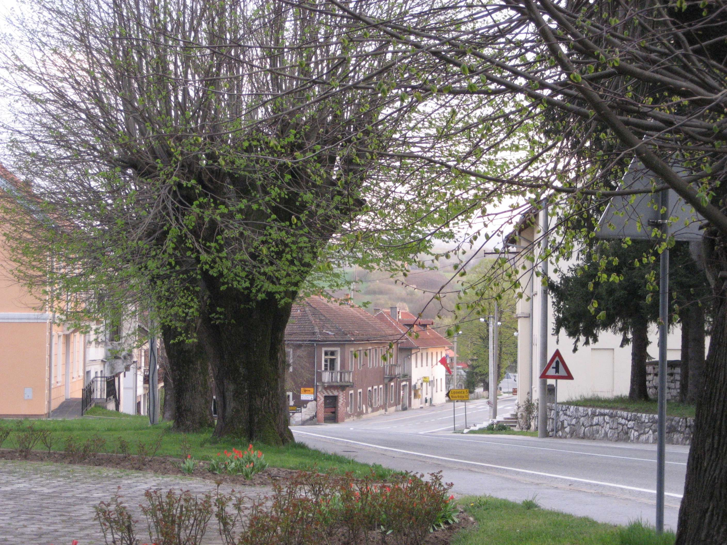 Rakovica centre, Croatia